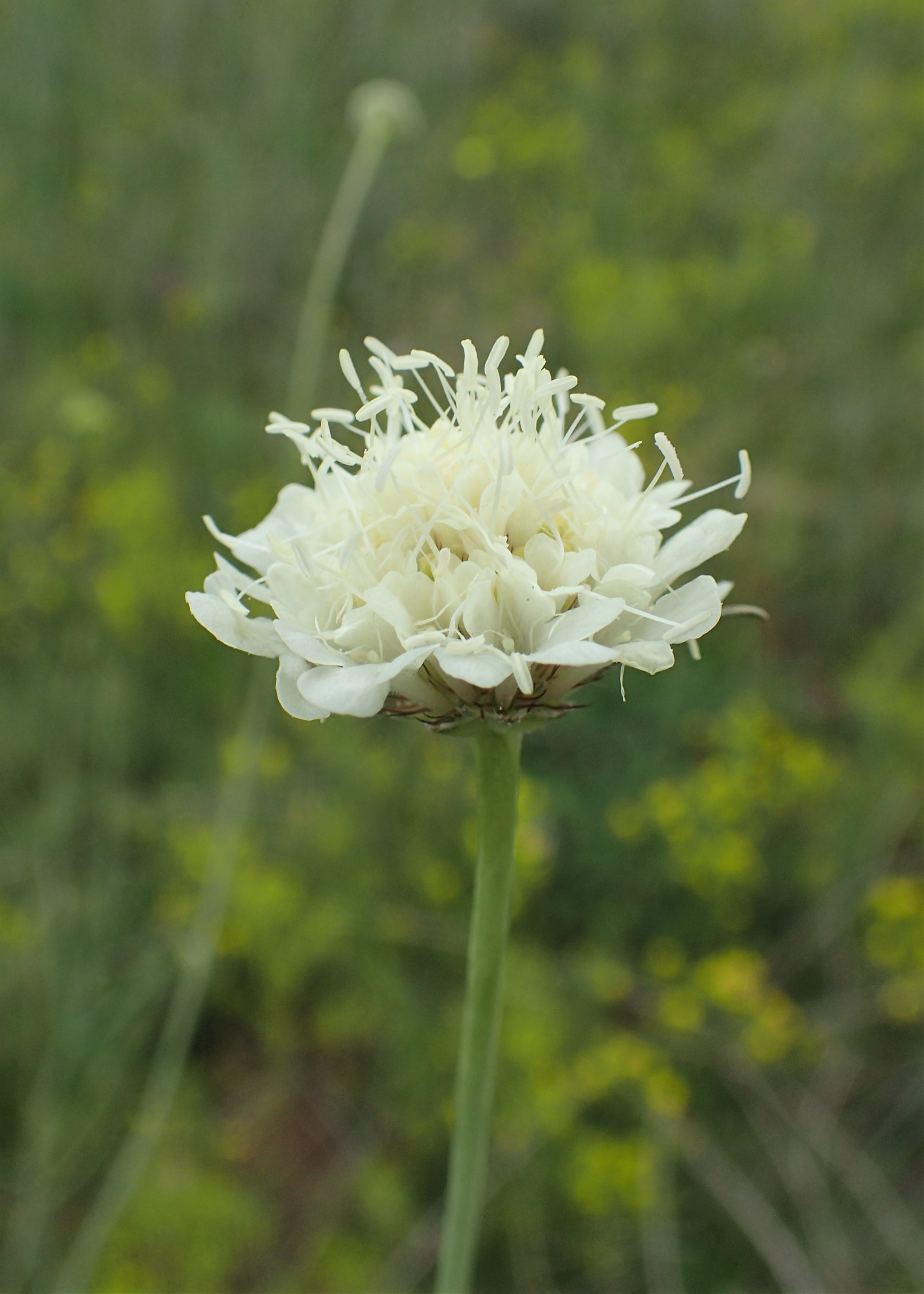 Cephalaria flava in Balkan Botanic Garden of Kroussia, N Greece (not labelled, wild growing)